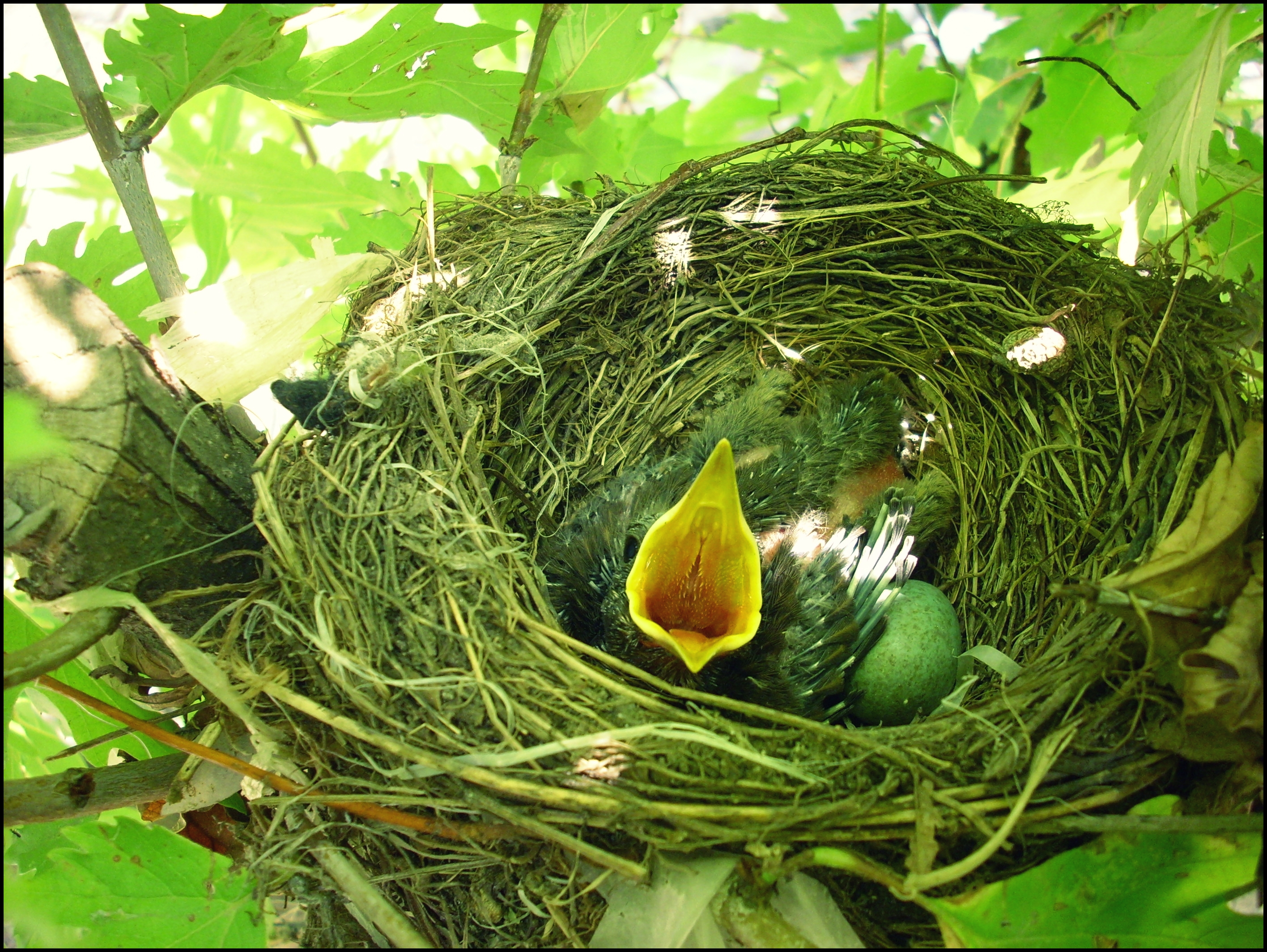 Nest of Turdus merula, biosphere reserve Chervenata stena